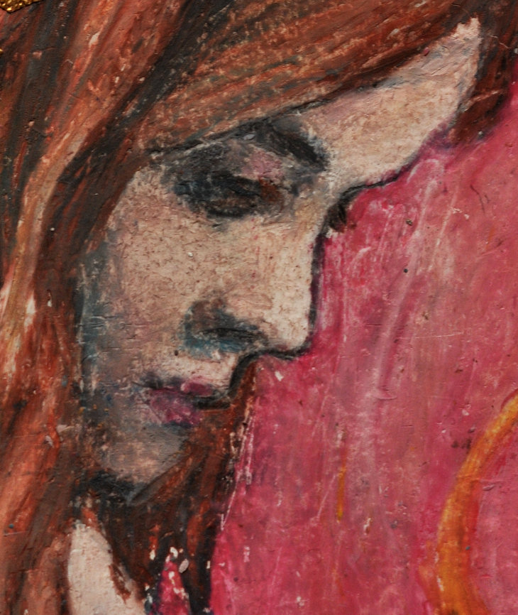 Detail of a painting done with oil pastels. The vertical size is about 7 cm.